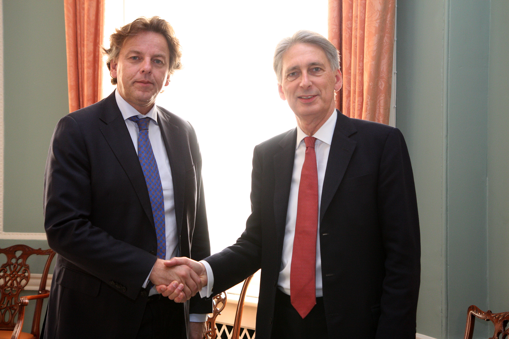 Foreign Secretary Philip Hammond meeting Bert Koenders, Dutch Foreign Minister in London, 14 October 2015.